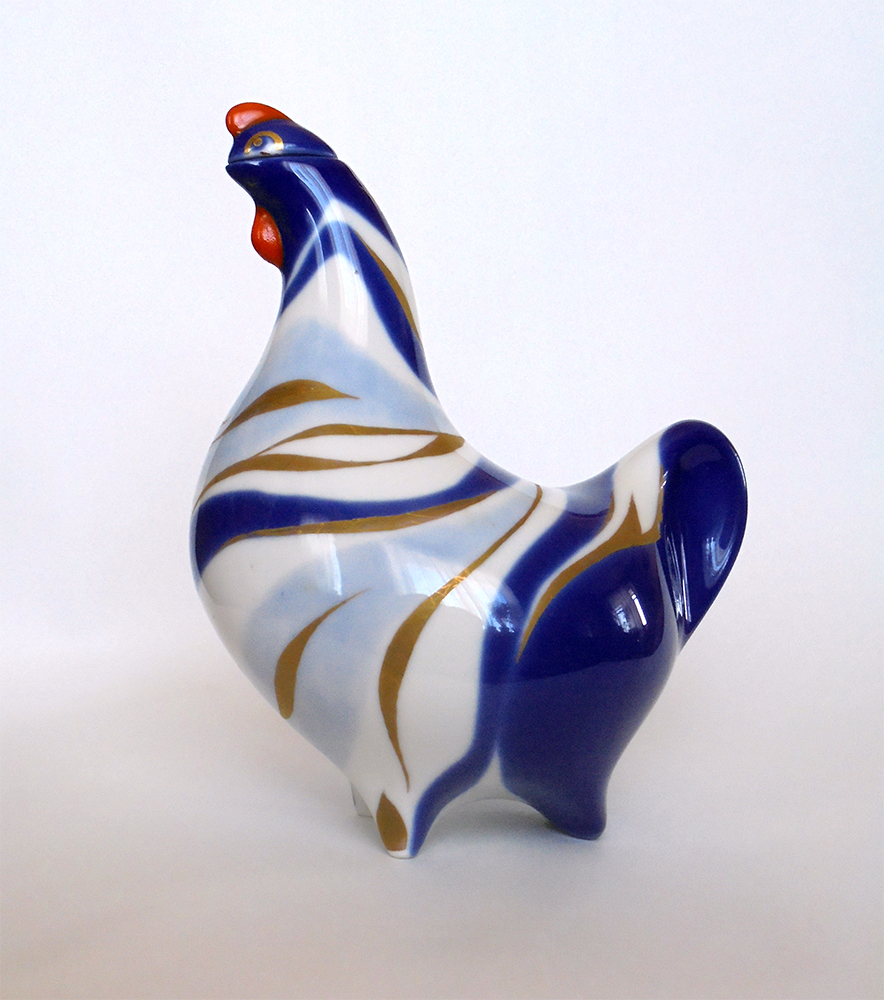 Porcelain set «Hen» on the Russian fairy tale «Kurochka Ryaba». Porcelain Factory «Red farforist» (Chudovo, Novgorod region. USSR). Porcelain of the soviet sculptor Bronislav Bystrushkin (1926-1977). Lomonosov's Porcelain Factory, Leningrad, USSR.